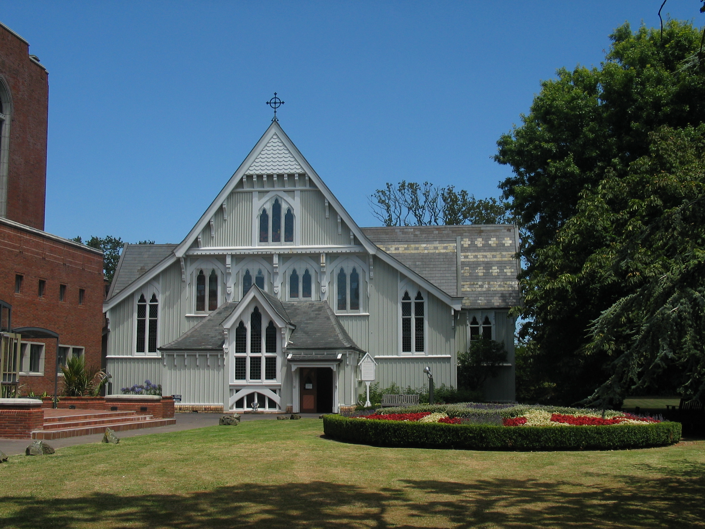 St Mary's Church, Parnell, New Zealand. Taken from the North on 17 January 2006.